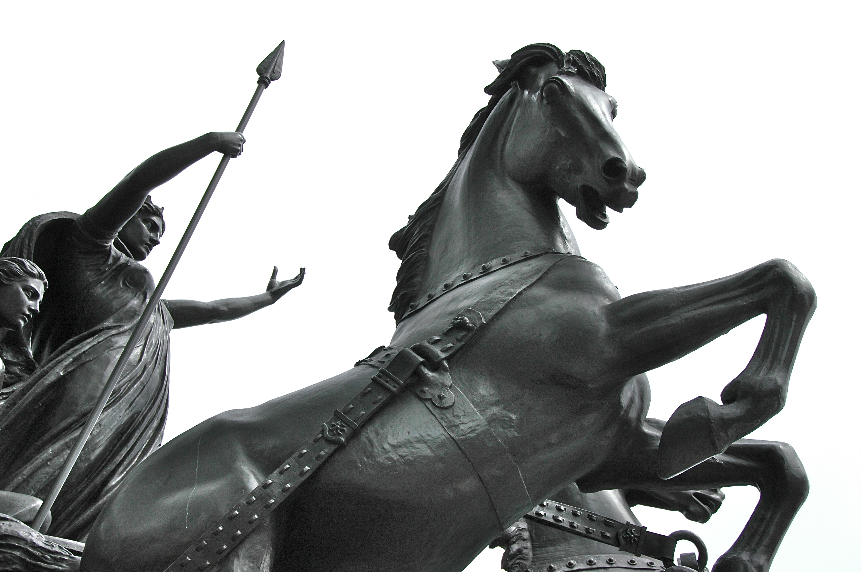 Boudica statue near Westminster Pier, London.